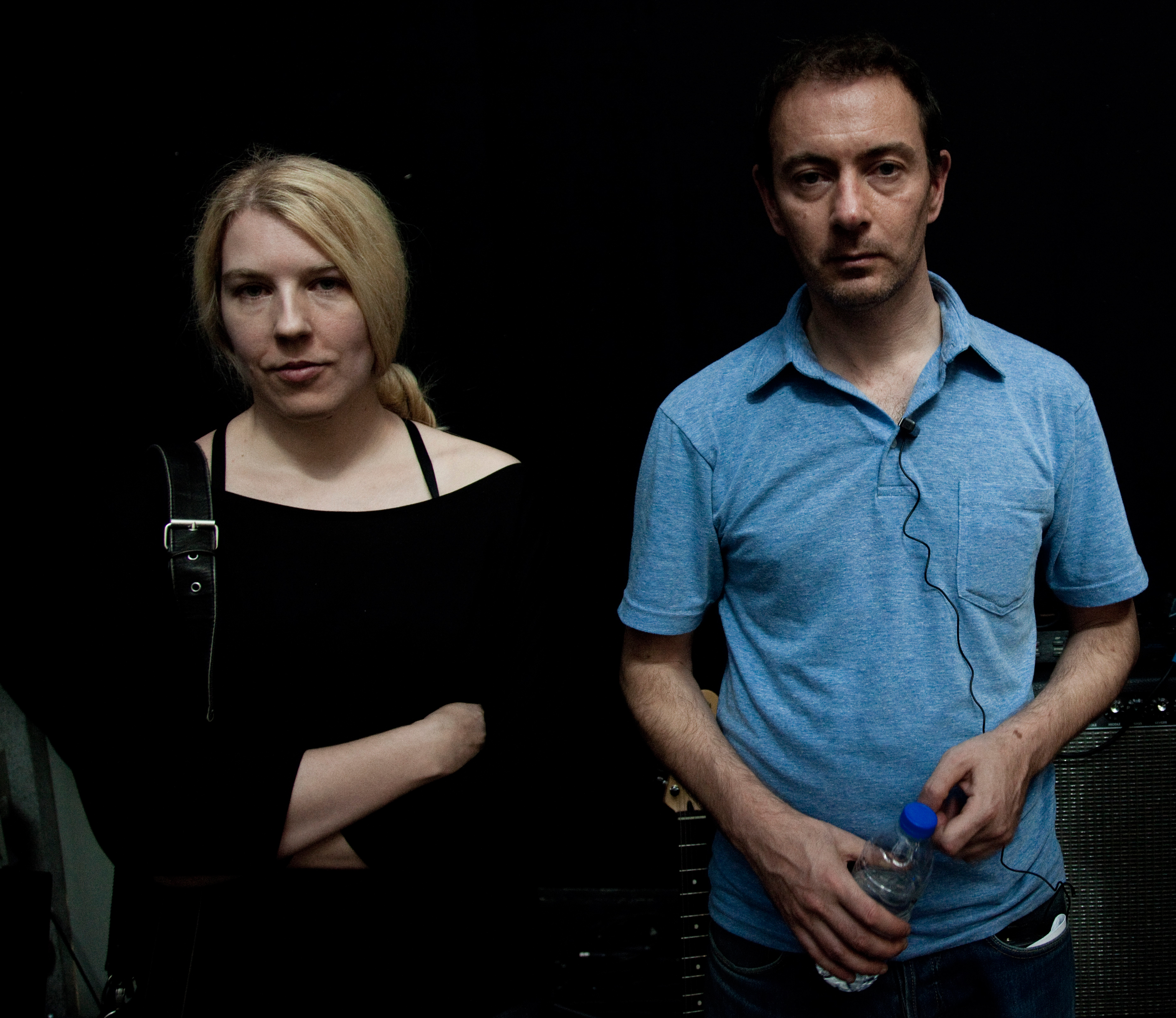 Cropped version of other photo featuring two original group members. Sarah Peacock and Mark Clifford